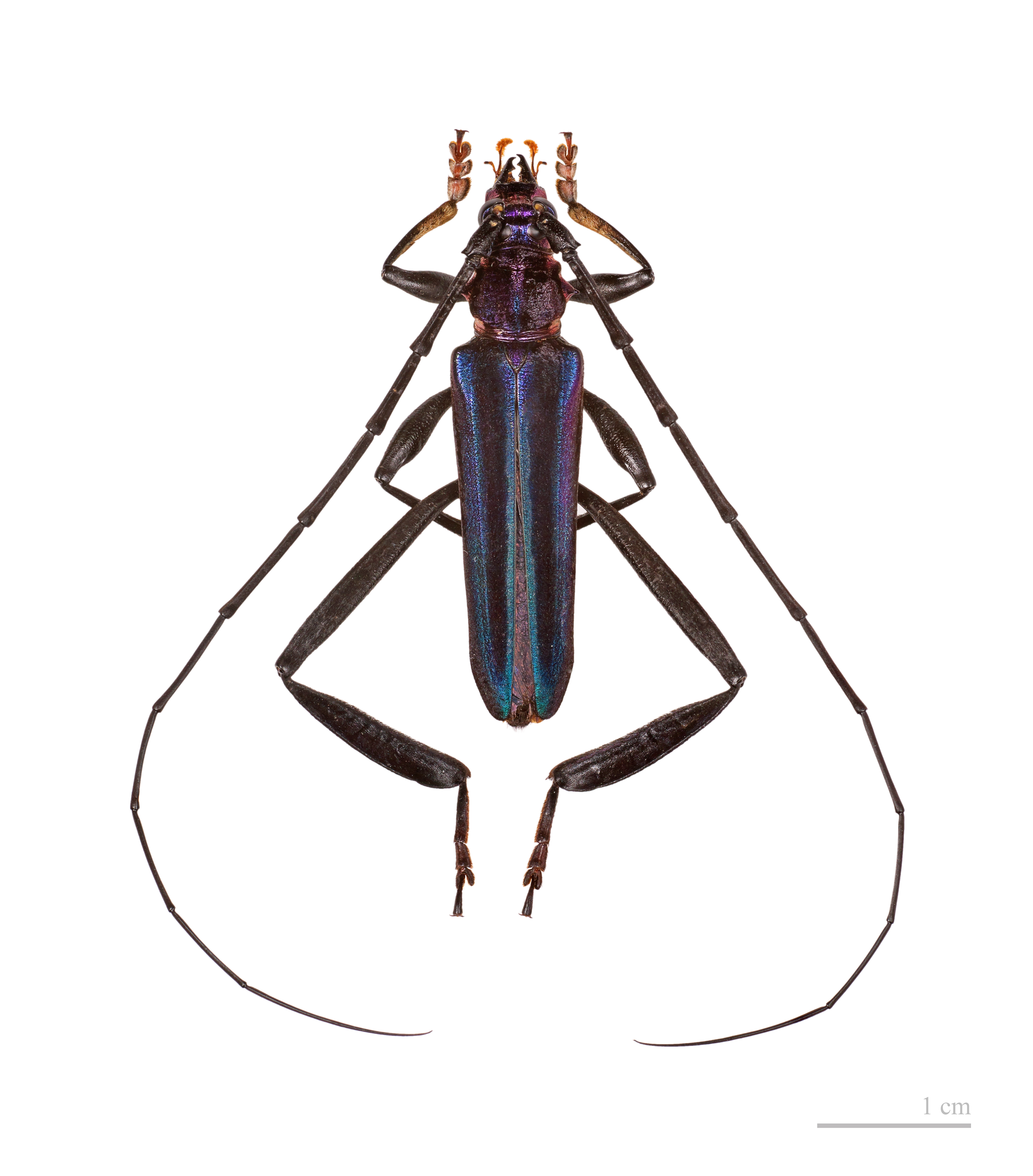 ♂ - Dorsal side Locality : Kaw road, Carbet of National Forests Office, French Guiana.